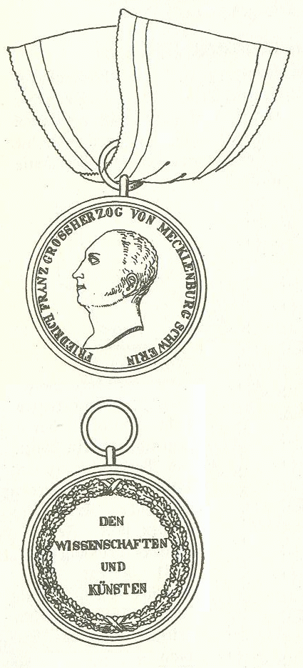 Medal for Sceince and Arts